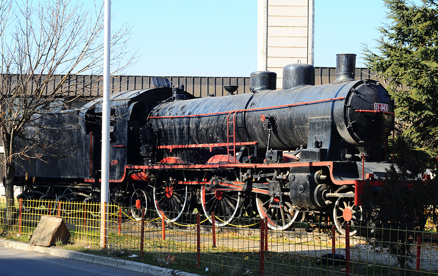 Steam locomotive in Kosovo.